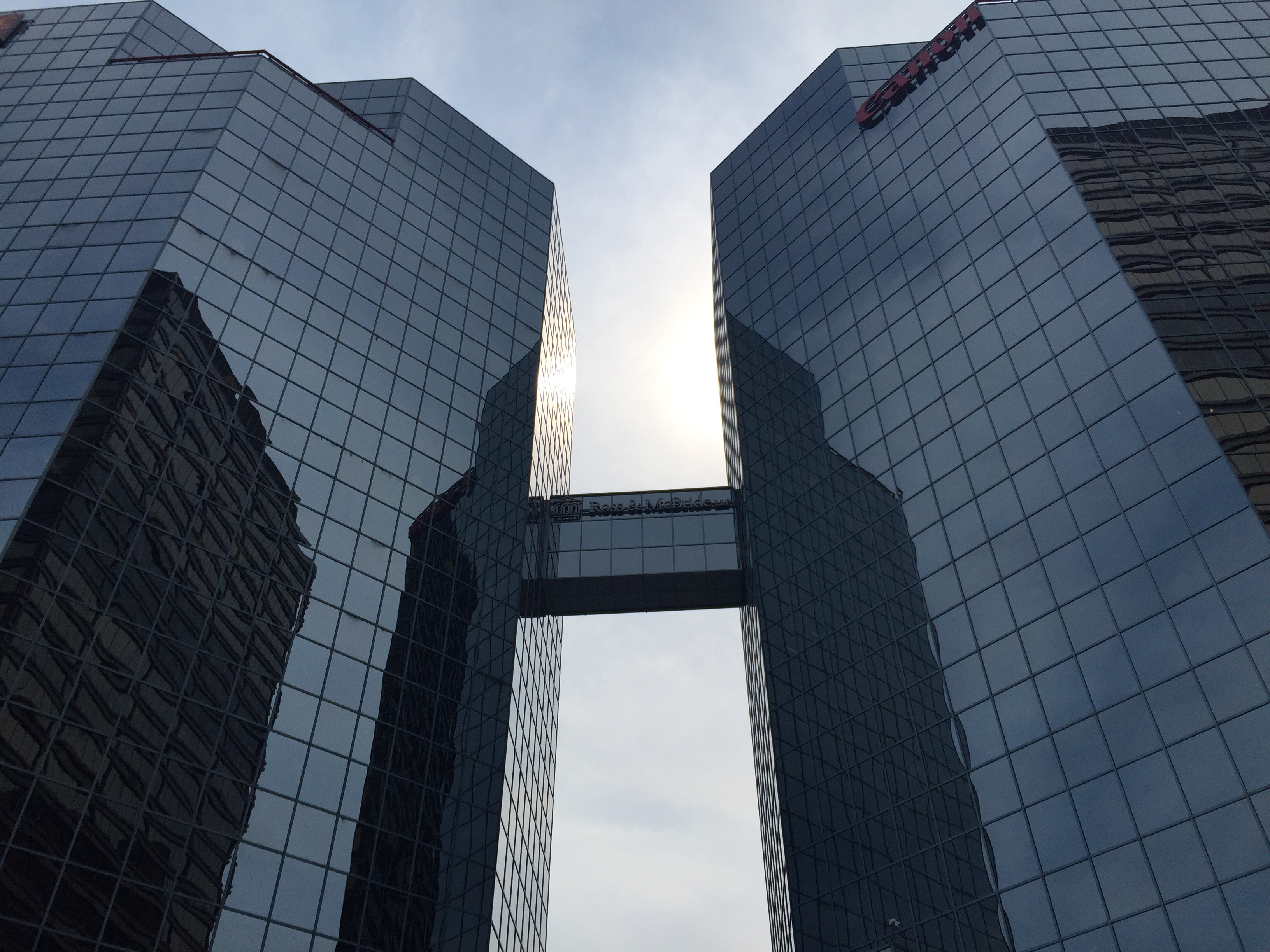 hamilton1